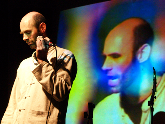 Mal Webb solo, Revolver South Yarra, 12th June 2006